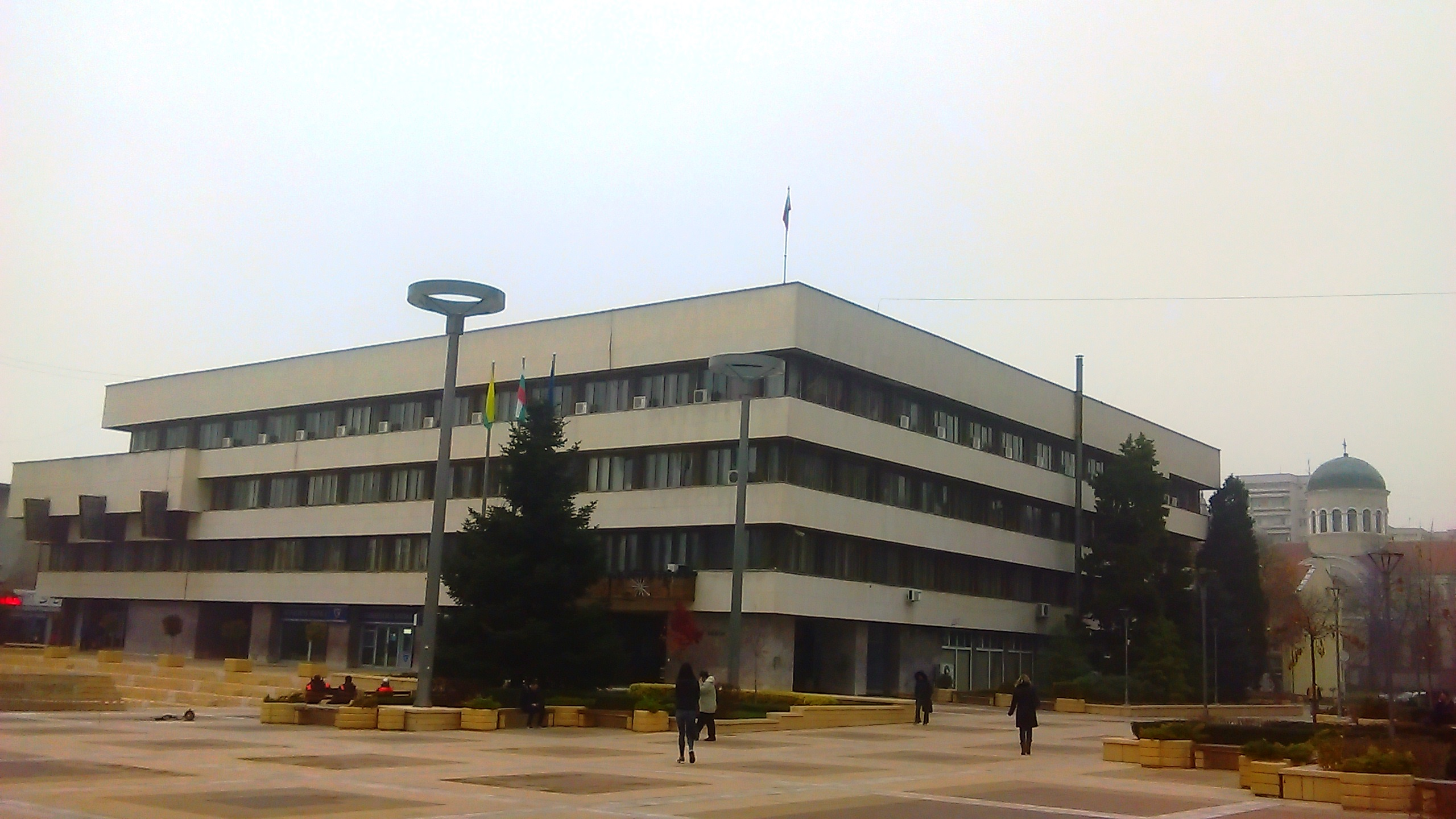 Yambol Municipality Building